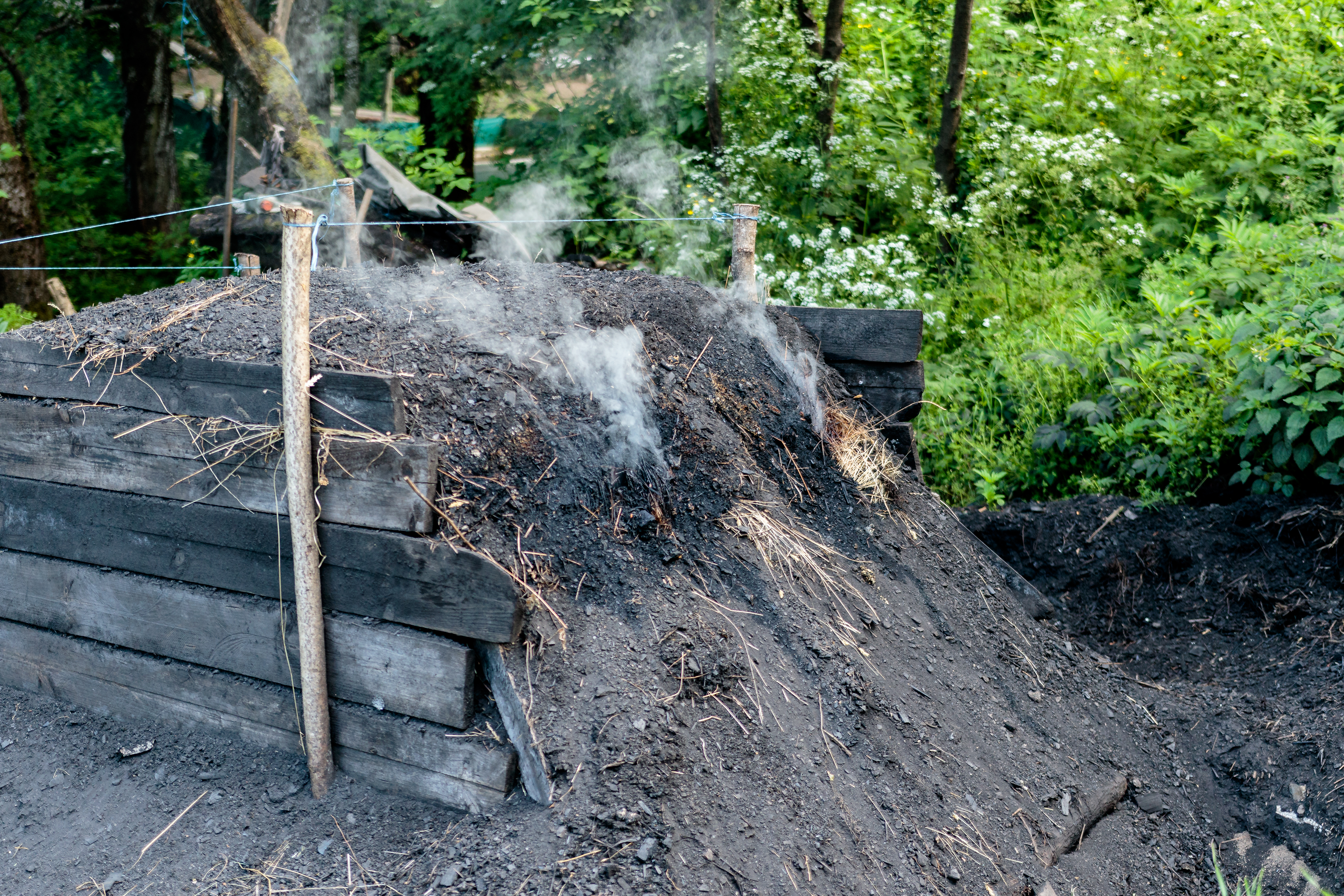 Traditional process of charcoal in the village Virovo, Macedonia